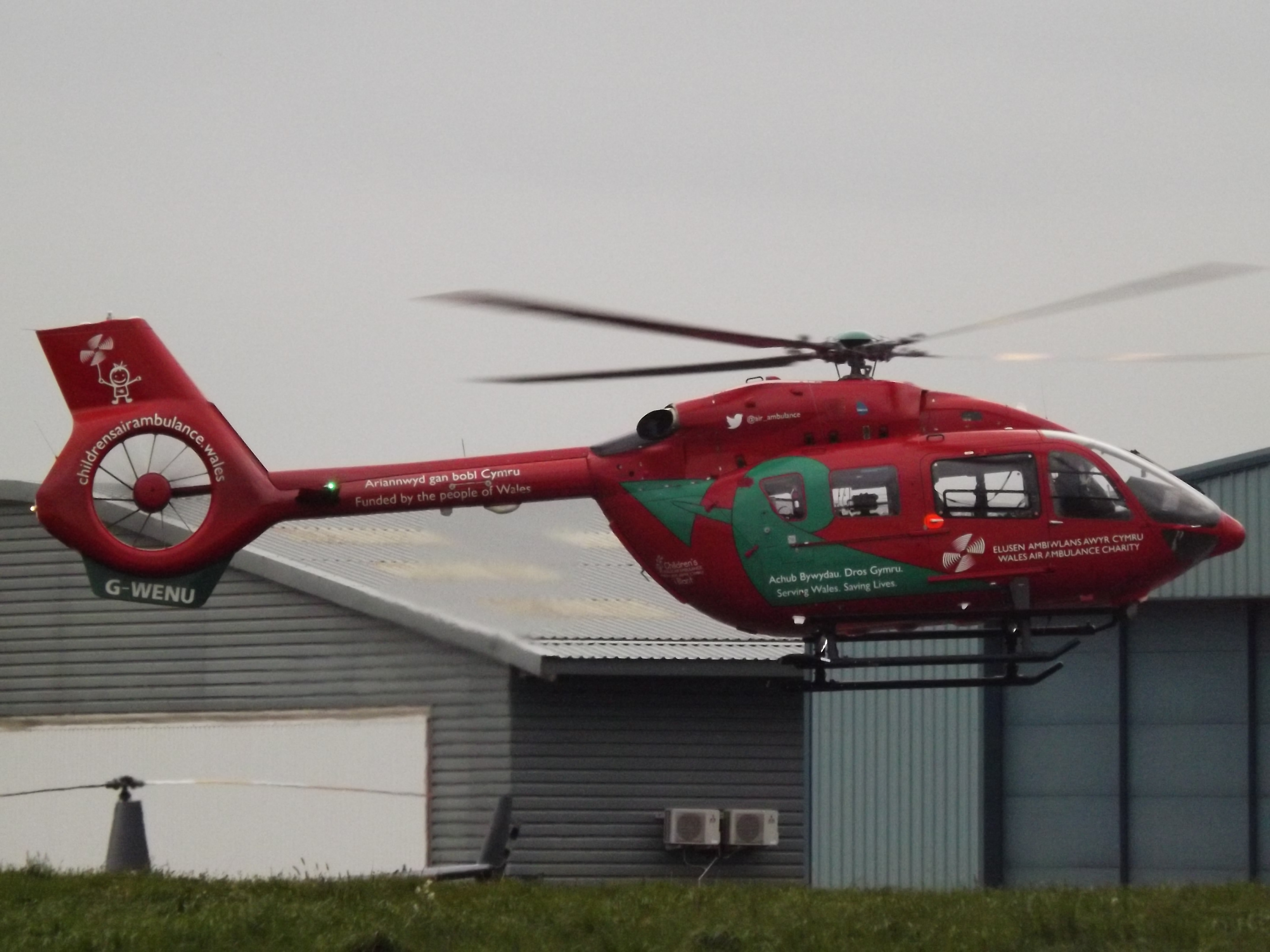 At Gloucestershire Airport.